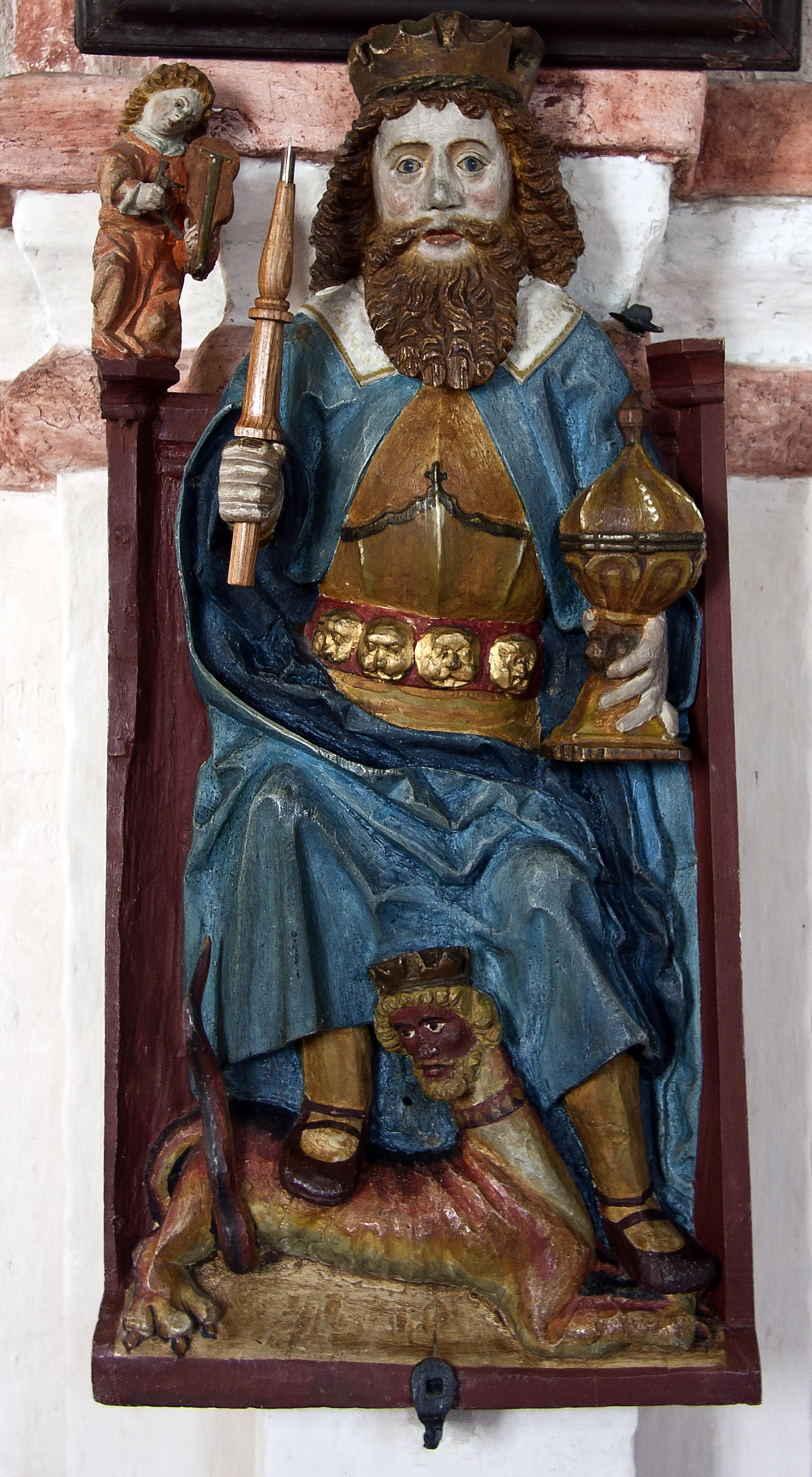 Saint Olaf in the church bearing his name in the village Sankt Olof in southern Sweden.